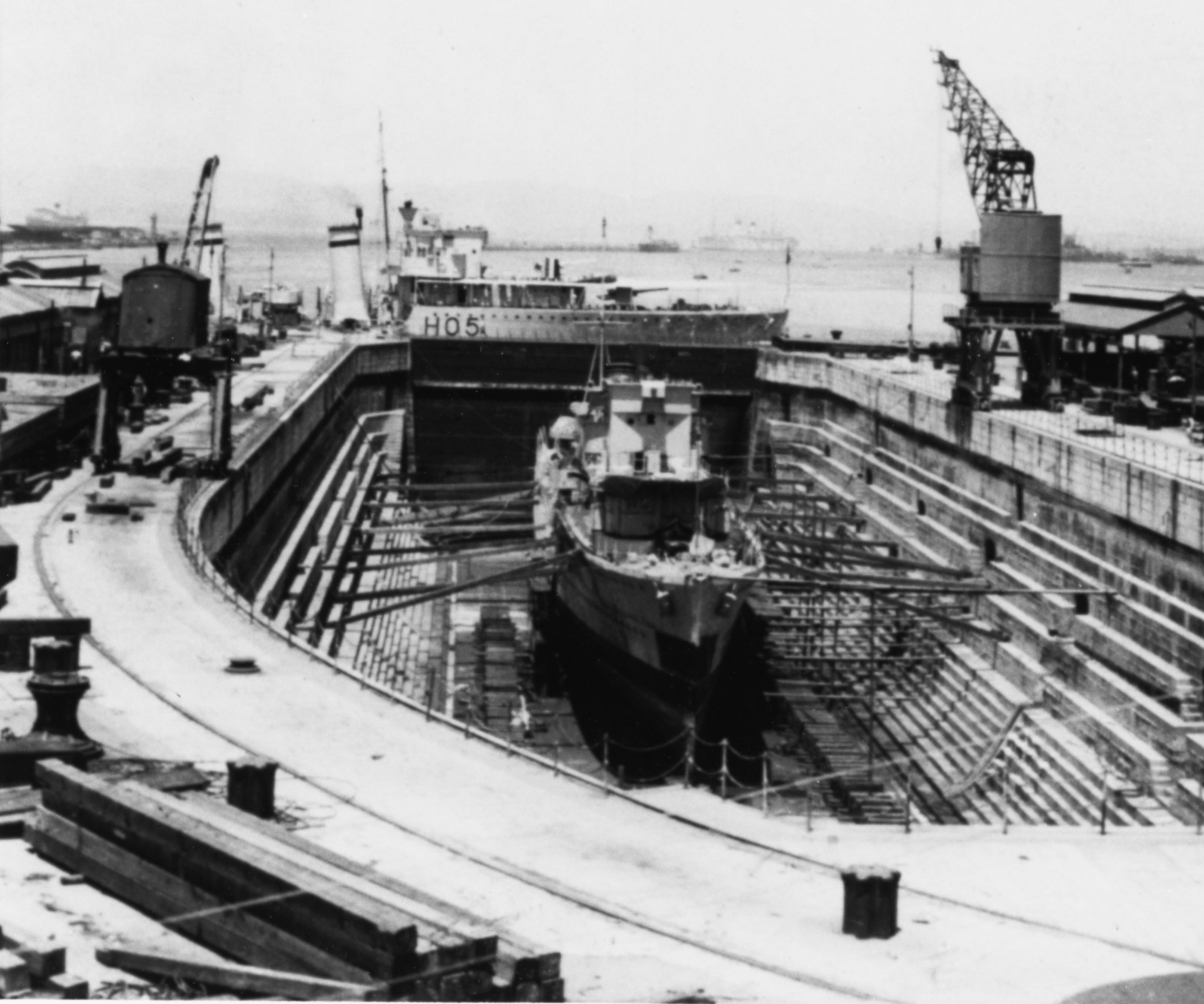 The Royal Navy destroyer HMS Hunter (H35) in drydock at Gibraltar on 9 July 1937. This vessel was damaged by a mine on 13 May 1937 off Almeria, Spain, during the Spanish Civil War, suffering eight men killed and nine injured. The ship was towed to Gibraltar; the forward boiler room had been wrecked. The ship later was rebuilt at Malta and ran trials in early November 1938. In the background is HMS Greyhound (H05).